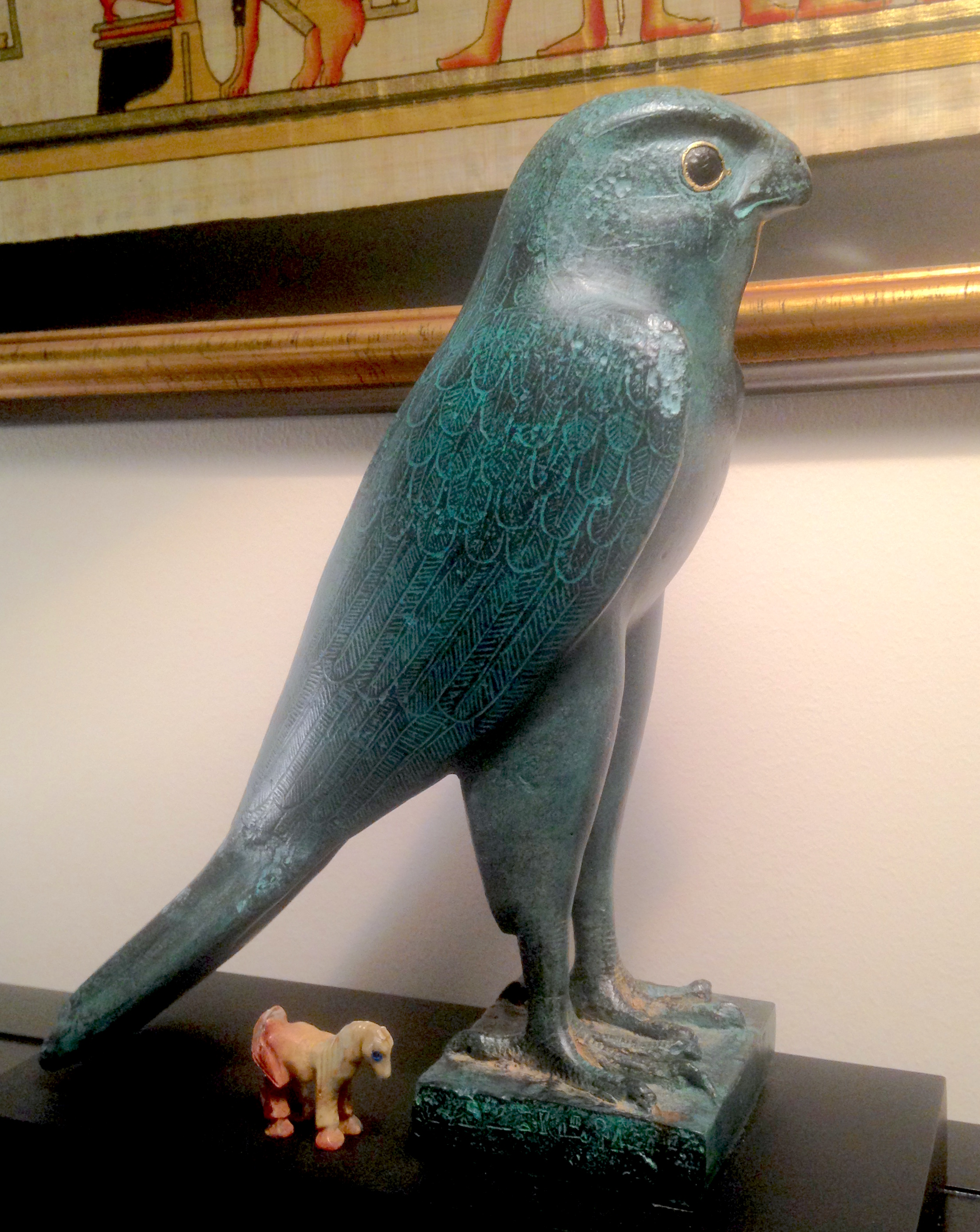 Photo of authorized replica of a Horus falcon. Original in the Department of Egyptian Antiquities at The British Museum, after 600 BCE - displayed in a private office